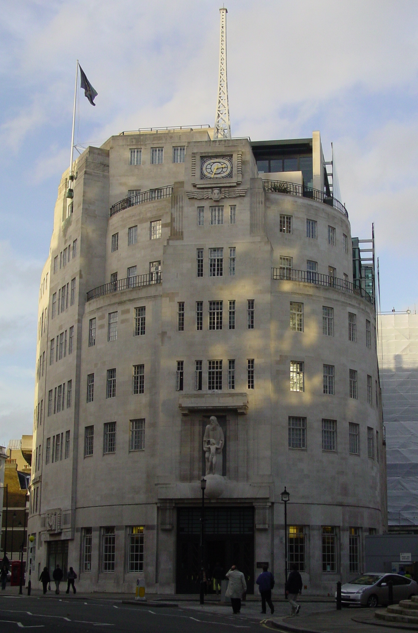 BBC Broadcasting House in London